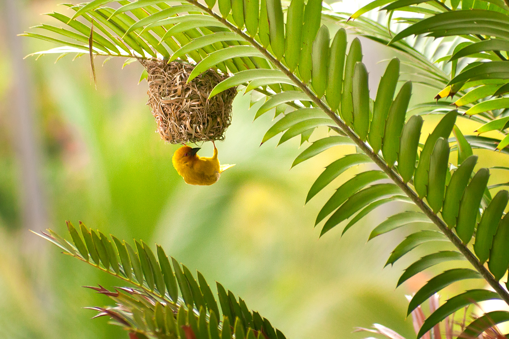 Golden Palm Weaver (Ploceus bojeri) doing something with his nest